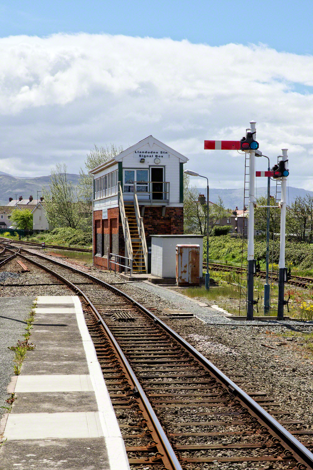 Llandudno Railway Station Terminus Signal Box